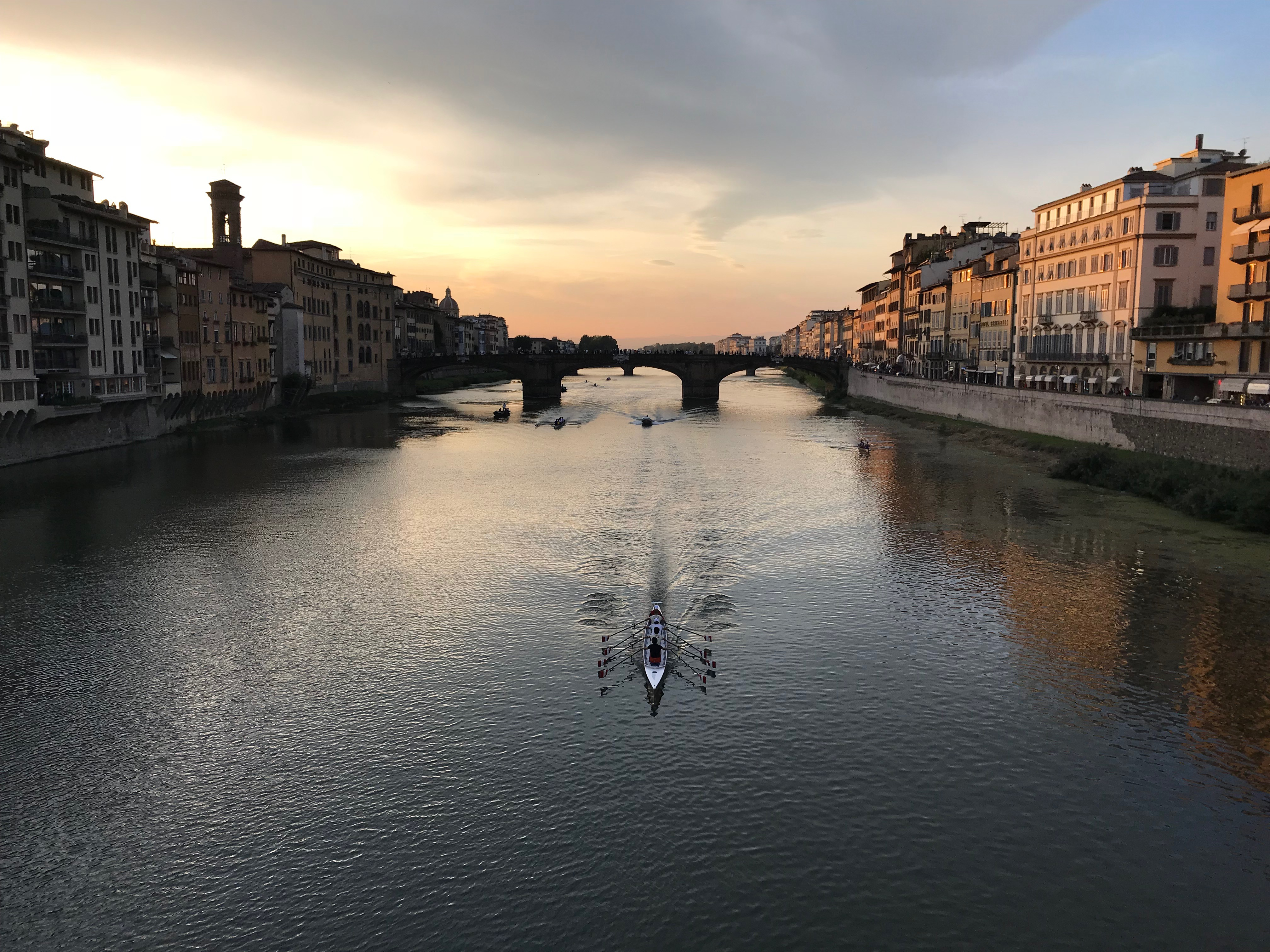 Scene from Ponte Vecchio